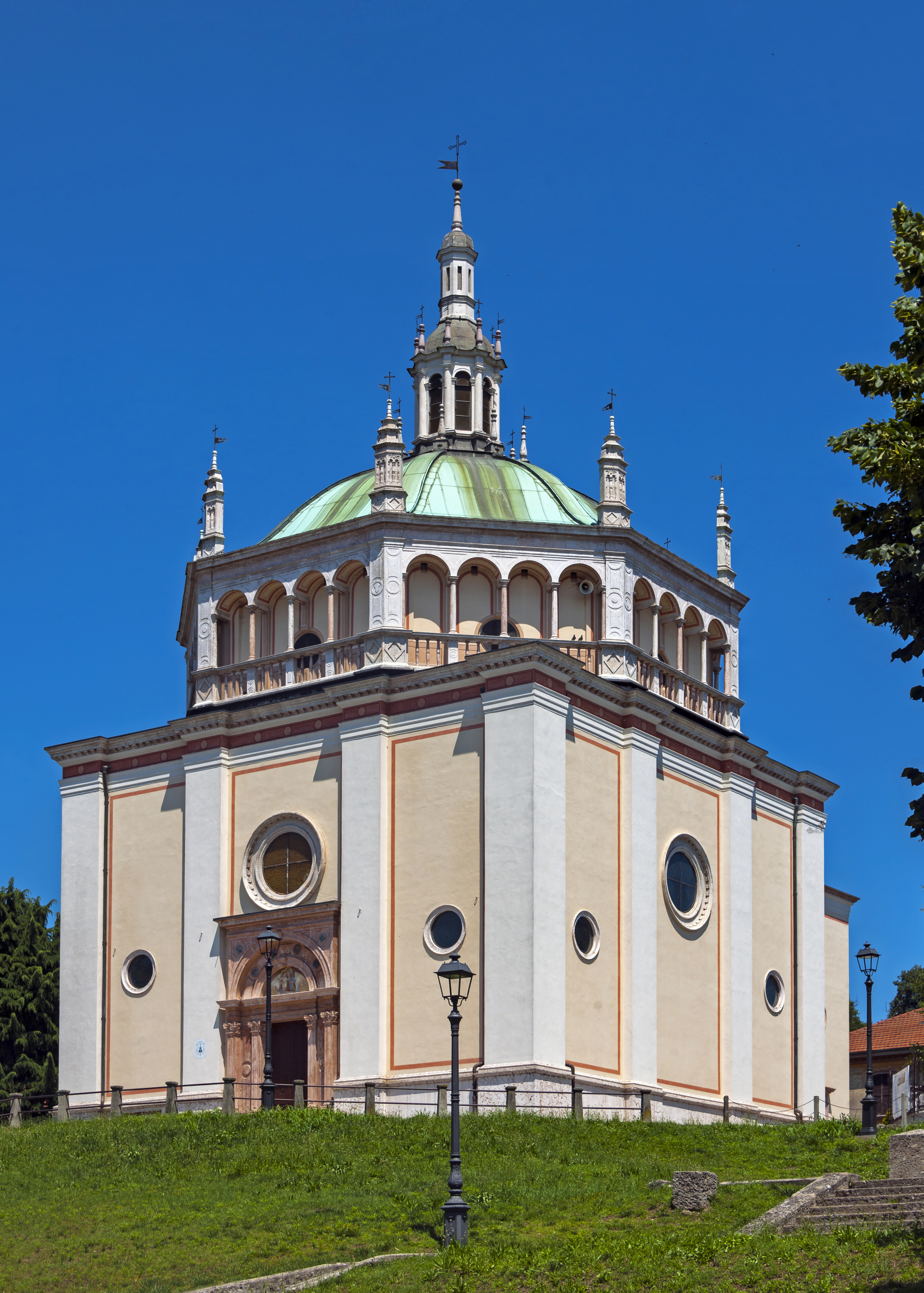 Santissimo Nome di Maria, the church at Crespi d'Adda, Italy, seen from its southwest.